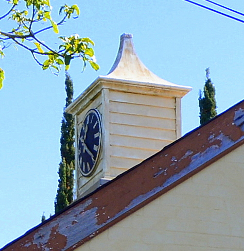 Clocktower on coachhouse, Tarella, Amherst Street, Cammeray, Sydney